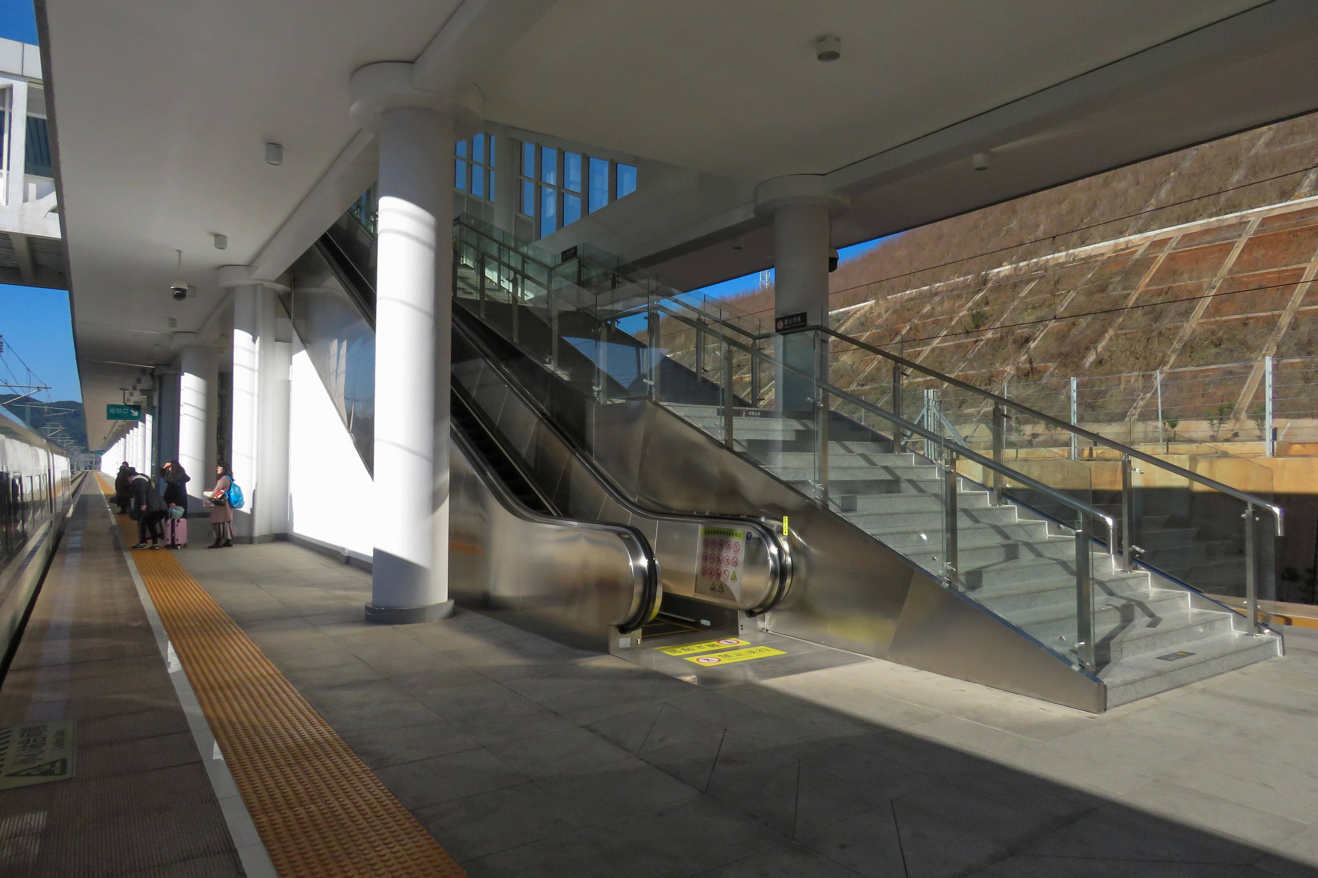 Taken from G2888 with limited time of stopover.